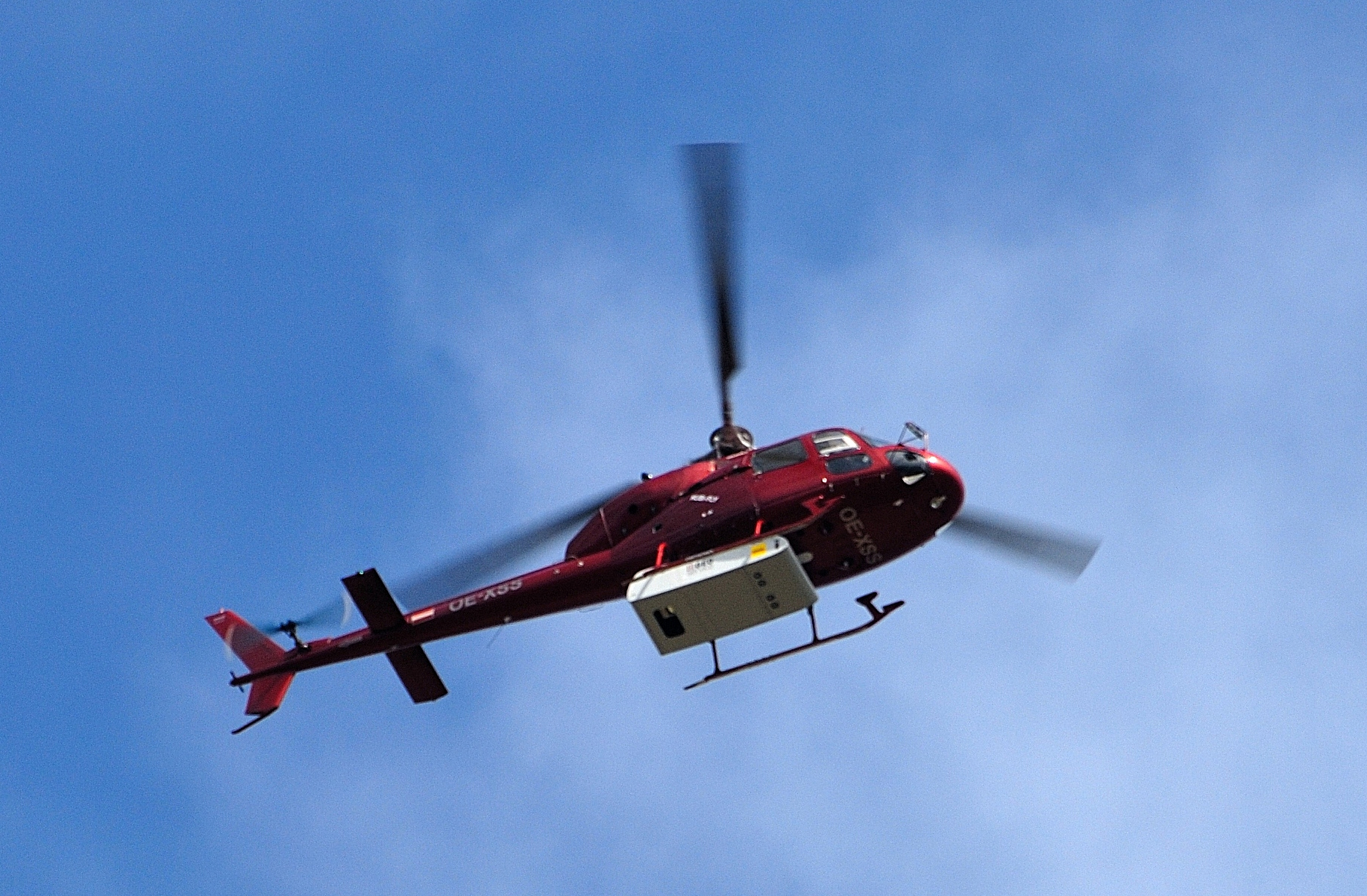 Airborne Laserscanner on a helikopter